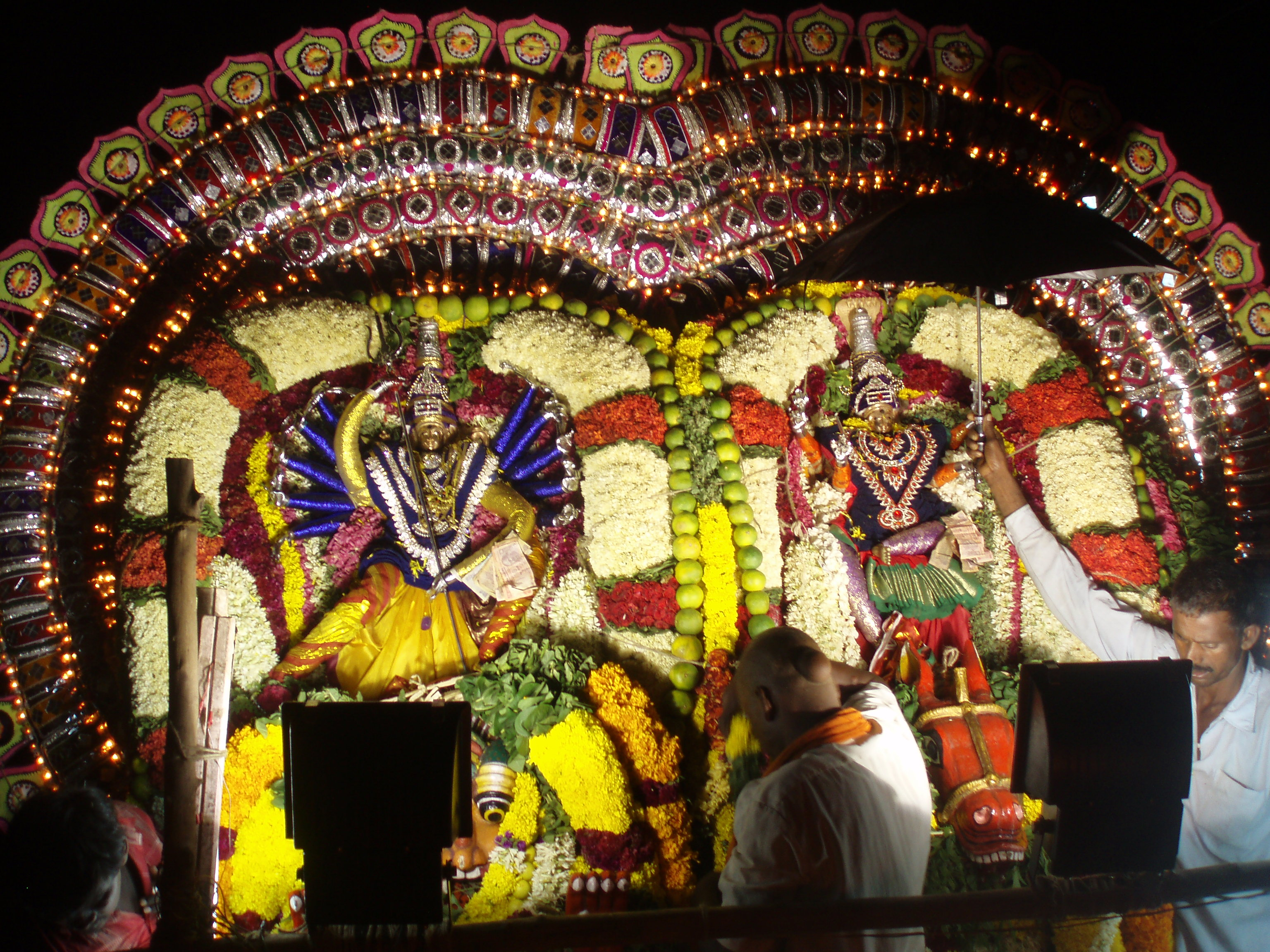 own work